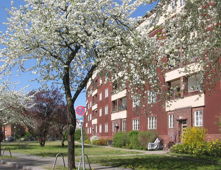 The Siedlung Birkenwäldchen (german for: settlement birchcopse) is a residential area in Berlin-Wilhelmstadt (Bezirk Spandau) at the Grimnitzsee (lake). It is a listed building- as well as gardenmonument. It was built in 1926/1928 by the architect Richard Ermisch.